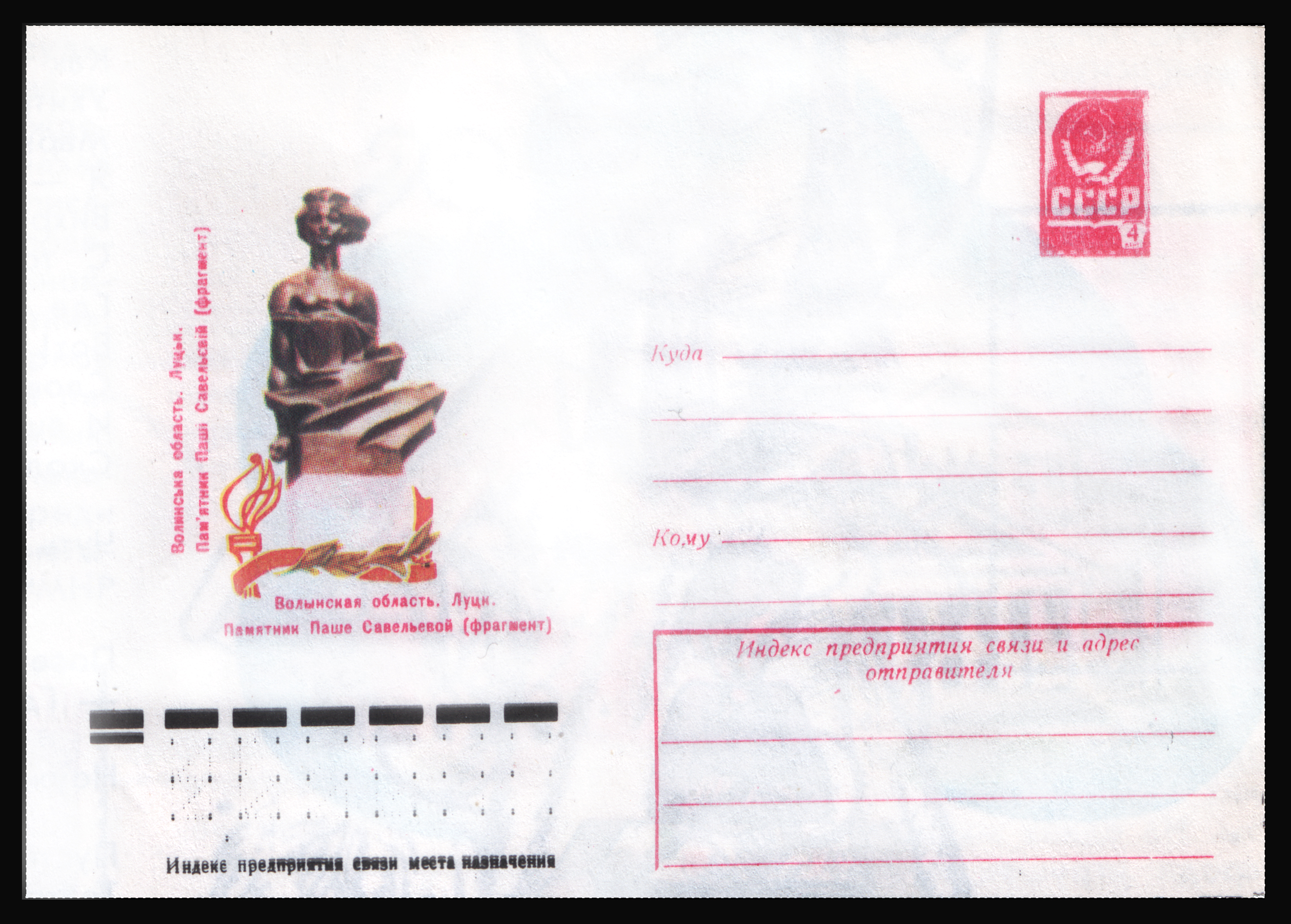 The USSR stamped illustrated cover, monument of Savel'eva P. I, 1977.